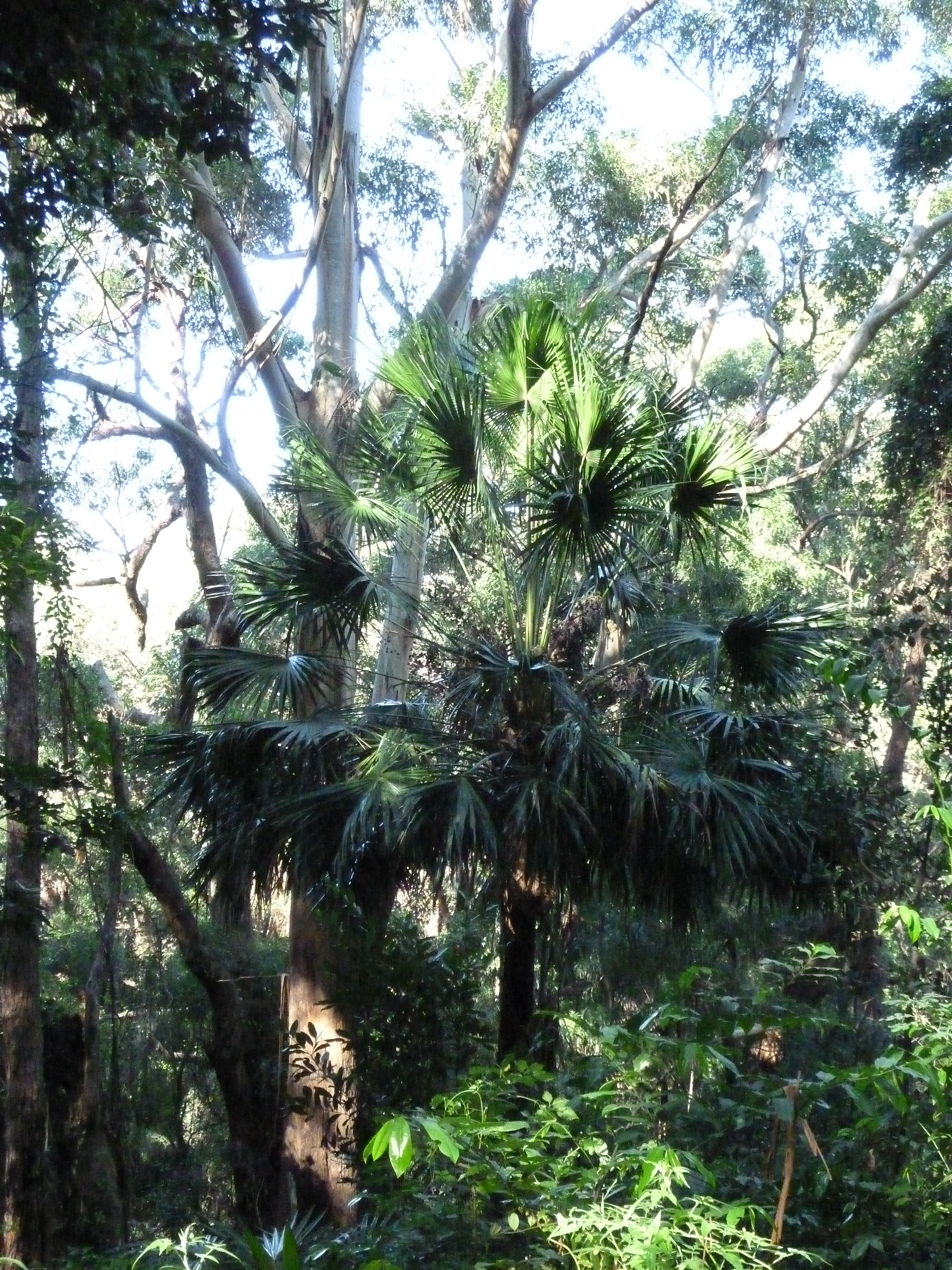 livistona australis? royal national park, Australia; near otford